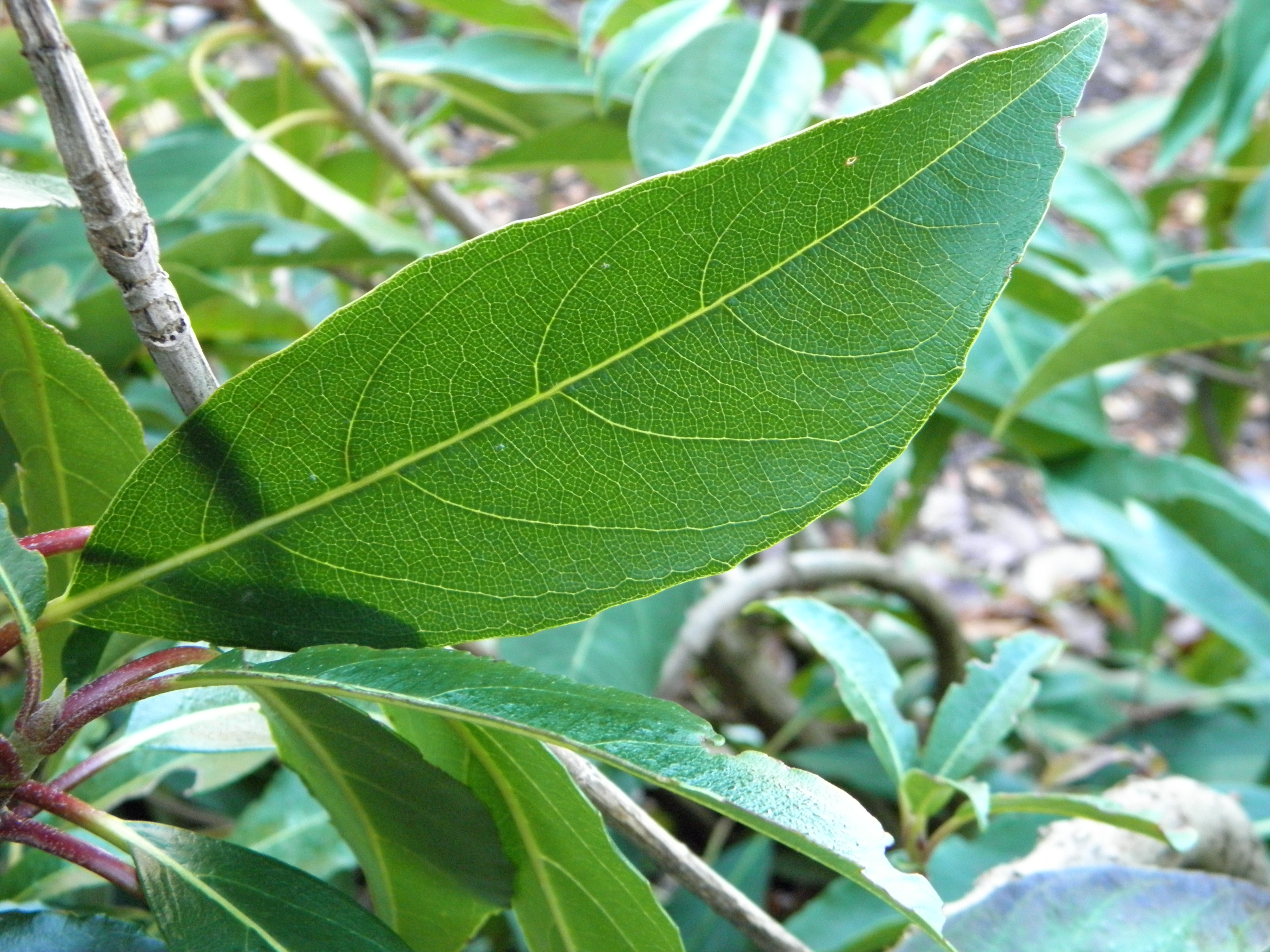 This is a macro shot of a Hydrangea integrifolia leaf grown near Seattle, Washington.